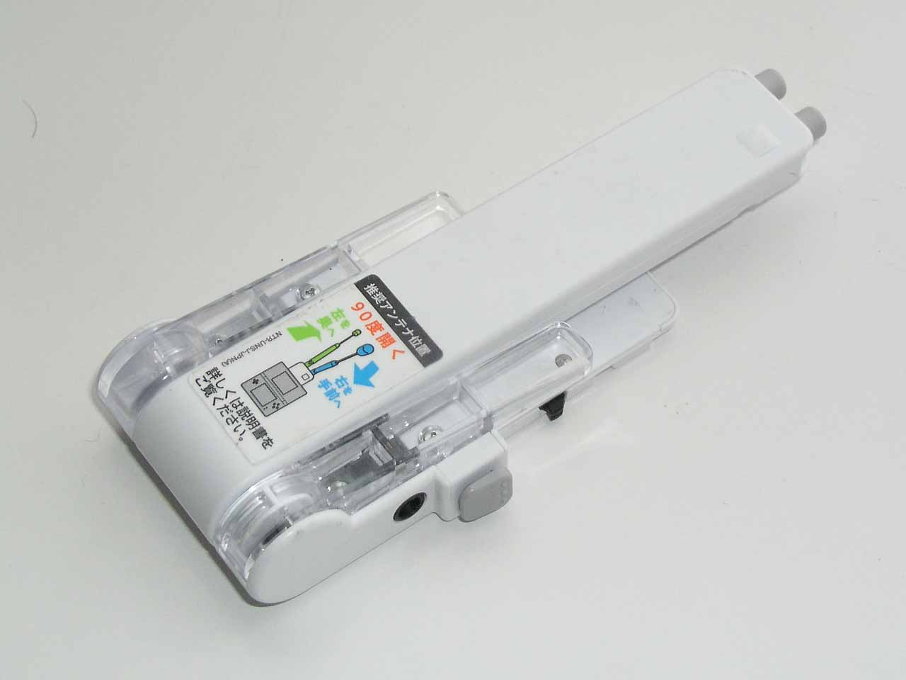 Nintendo DS Digital TV Tuner (DSTV), body closed.